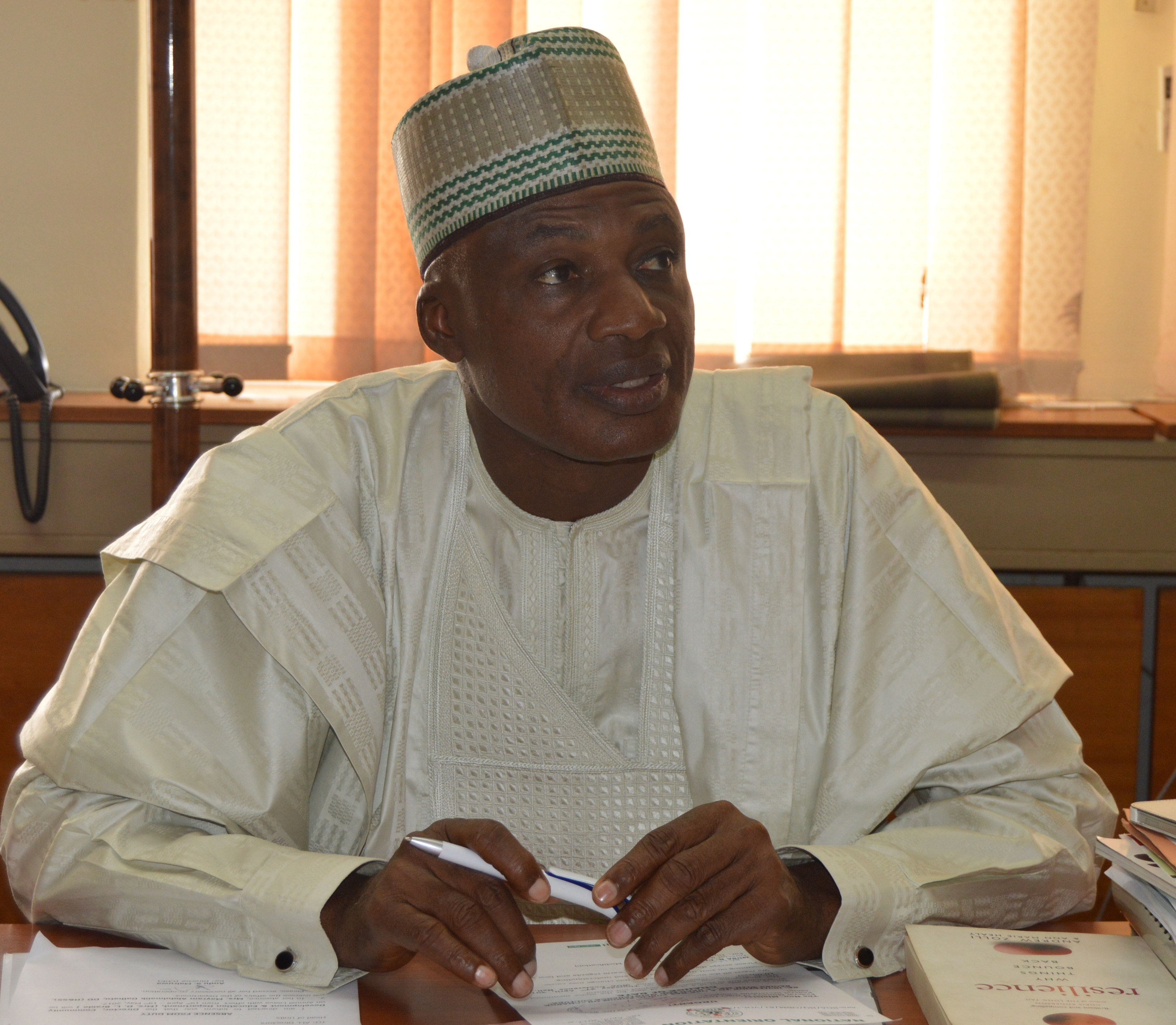 Mallam Al-Hassan Yakmut